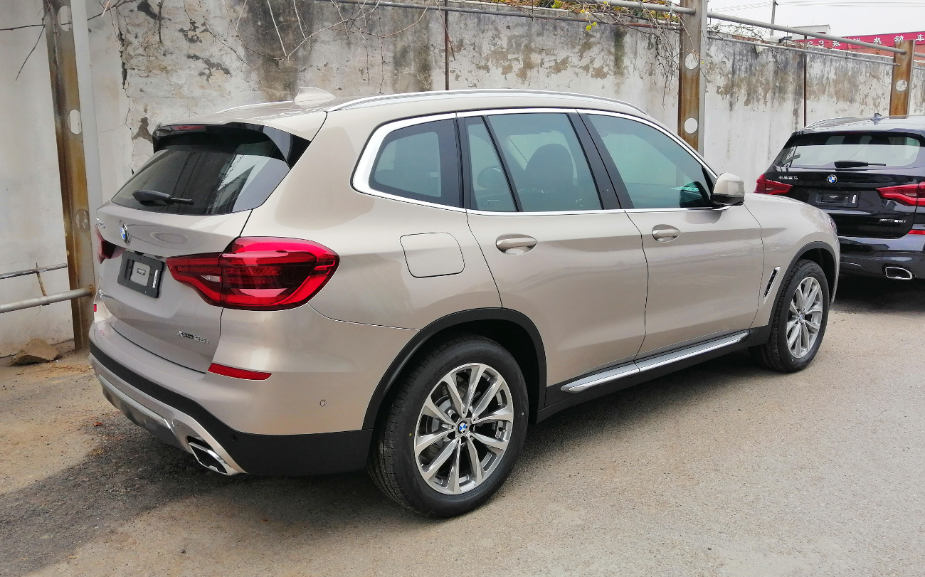 BMW X3 G08 photographed in Shanghai, China.